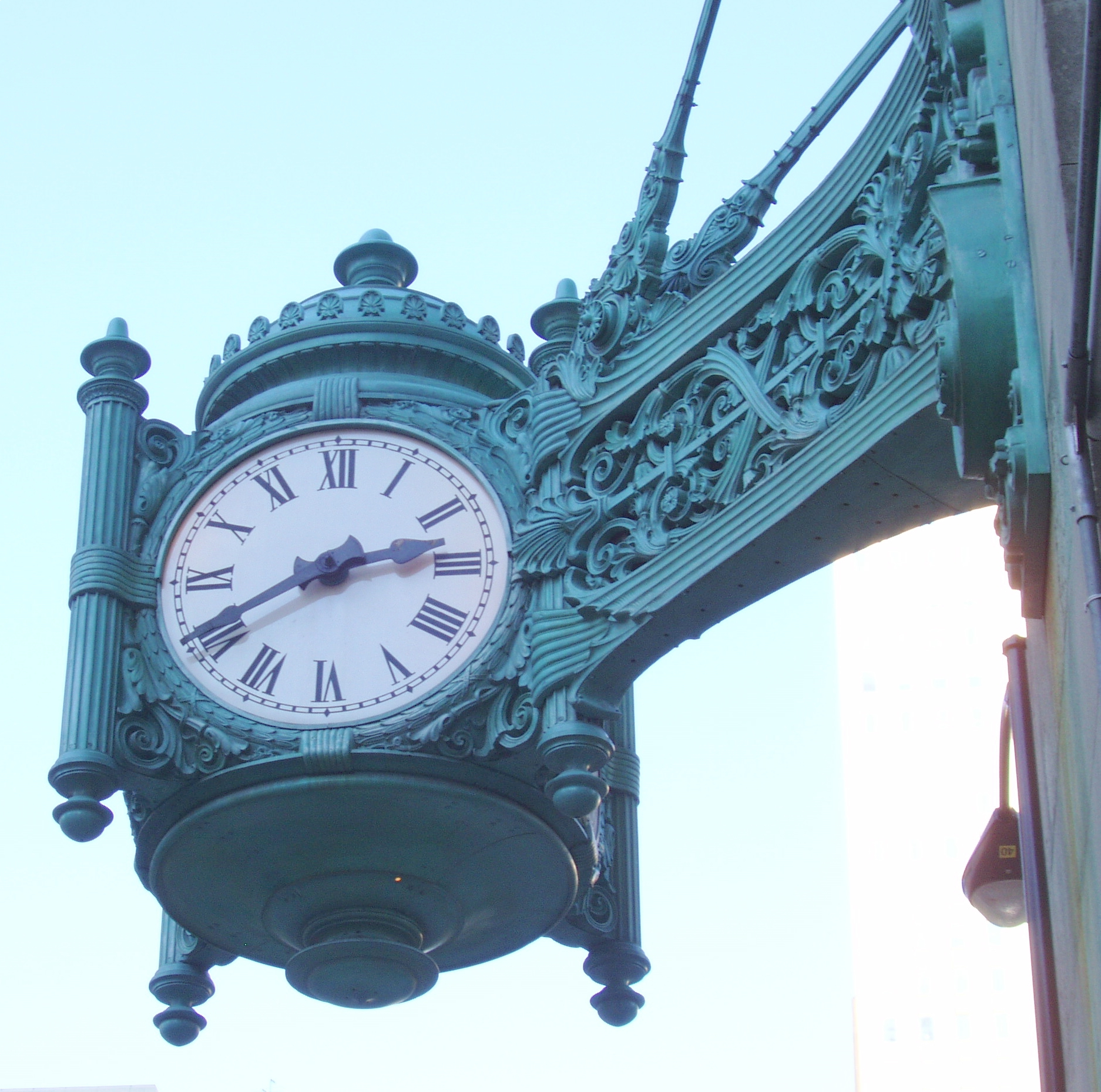 The clock at Marshall Field and Company, Chicago (taken at the corner of Randolph and State Street).